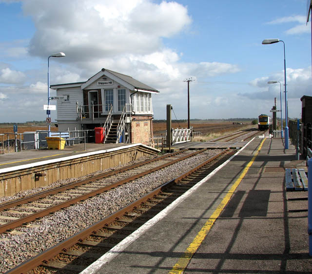 Train approaching Shippea Hill station Most trains on the line from Norwich to London pass through here without stopping.